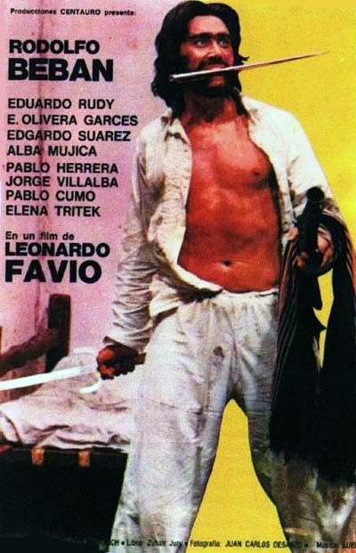 Poster of Leonardo Favio's Juan Moreira (1972)